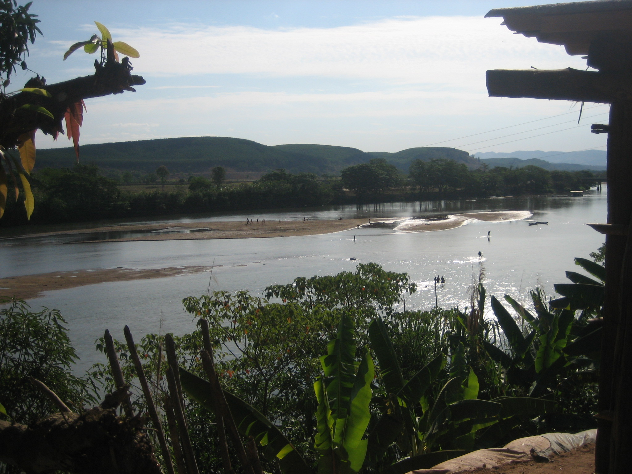 Santo Antônio river in Naque, Minas Gerais, Brazil.